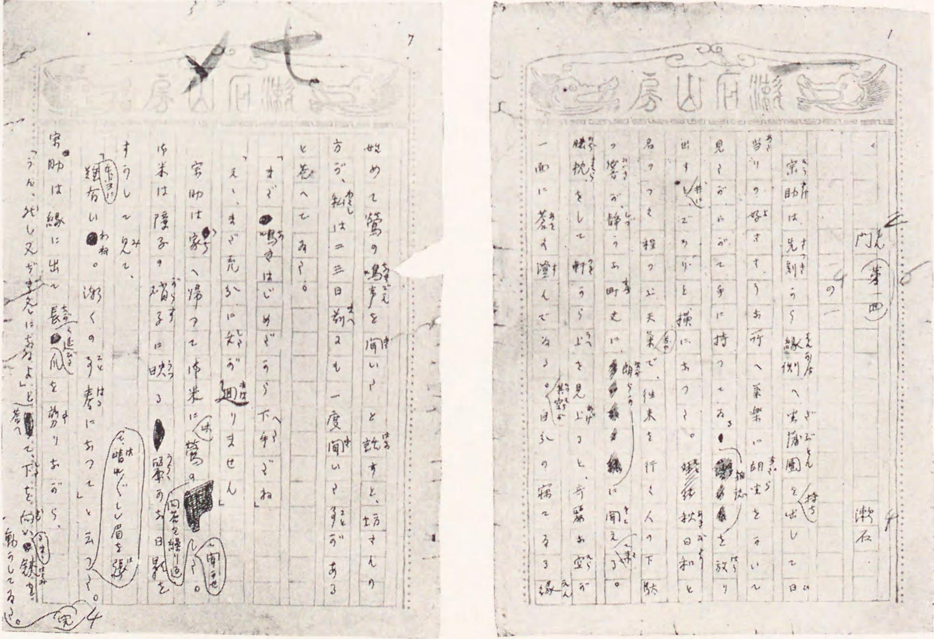 Part of manuscripts of "The Gate" by Natsume Soseki.